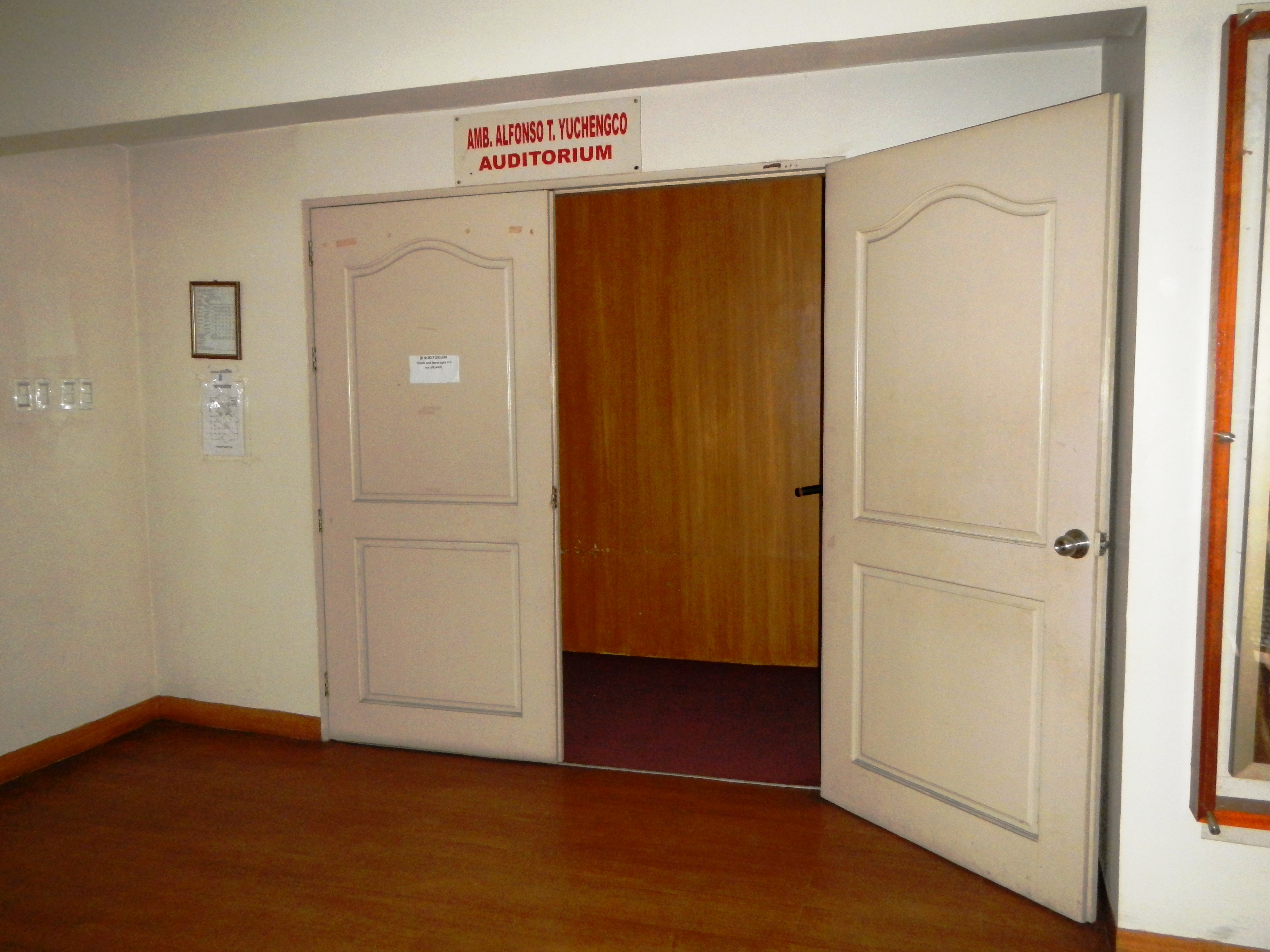 Bantayog ng mga Bayani Museum Bantayog ng mga Bayani Bantayog ng mga Bayani (Heroes Monument) Park (complex of a momument tribute to martial law heroes and martyrs (1972-1986), a wall of remembrance where their names are inscribed, a building complex housing its office, library, museum, audio-visual auditorium located at the corner of EDSA and Quezon Avenue Quezon City).Quezon Avenue near EDSA, Pinyahan, Quezon City Collection of items of the Martial Law period).